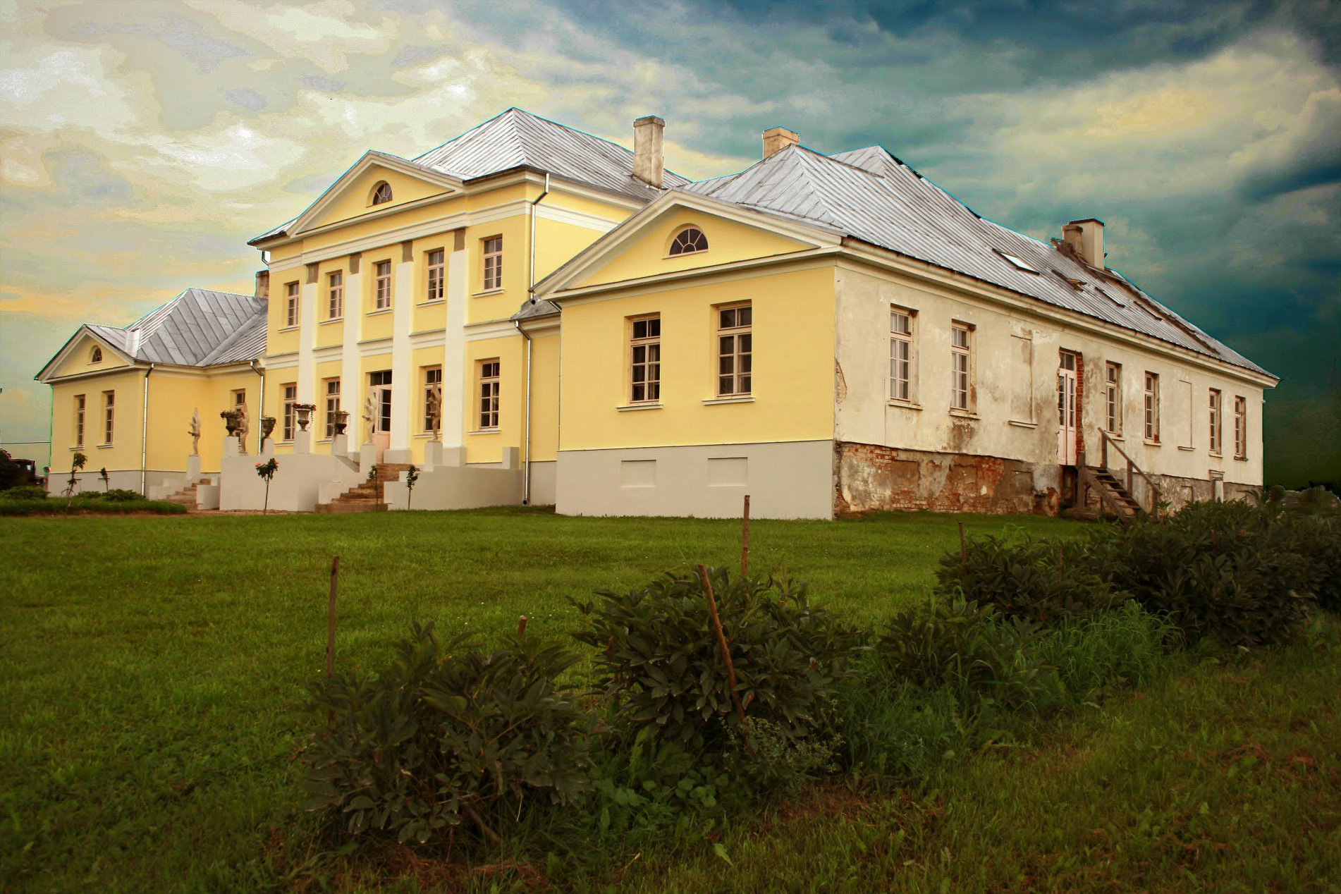 Brucken manorLatviešu: Bruknas muižas pils